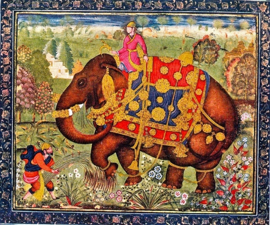 Farrukh Beg. Portrait of an Elephant (Atash Khan or Chanchal), 1600-1604, Location unknown.